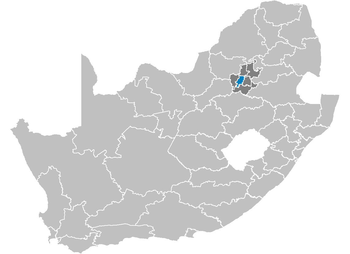 Map showing the Johannesburg Metropolitan Municipality higlighted within Gauteng.